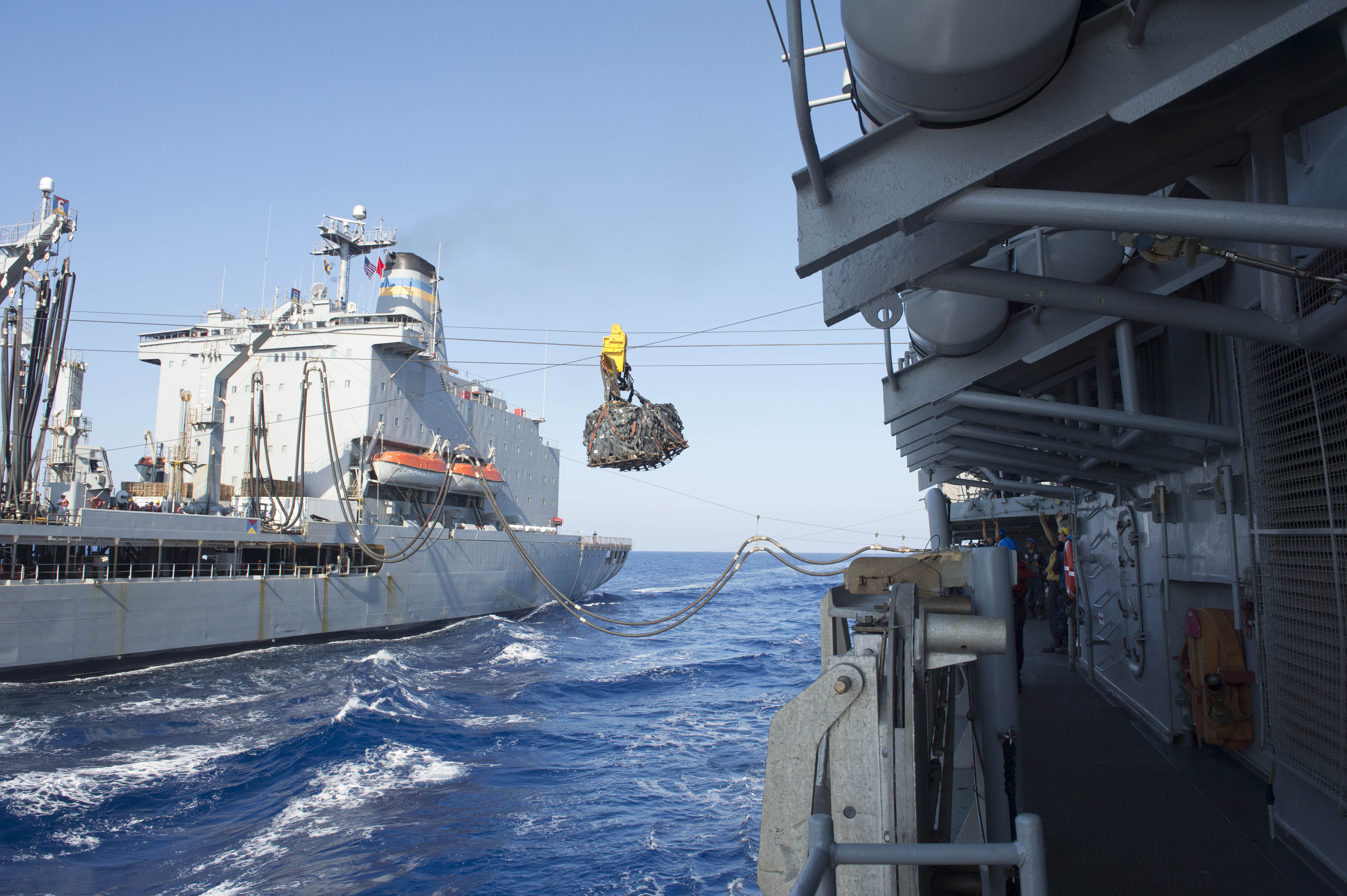 Supplies are transported between the guided missile cruiser USS Vella Gulf (CG 72), right, and the fleet replenishment oiler USNS Leroy Grumman (T-AO 195) in the Mediterranean Sea during a replenishment at sea Aug. 27, 2014. The Vella Gulf conducted maritime security operations and theater security engagements in the Black Sea as part of the U.S. commitment to regional stability.